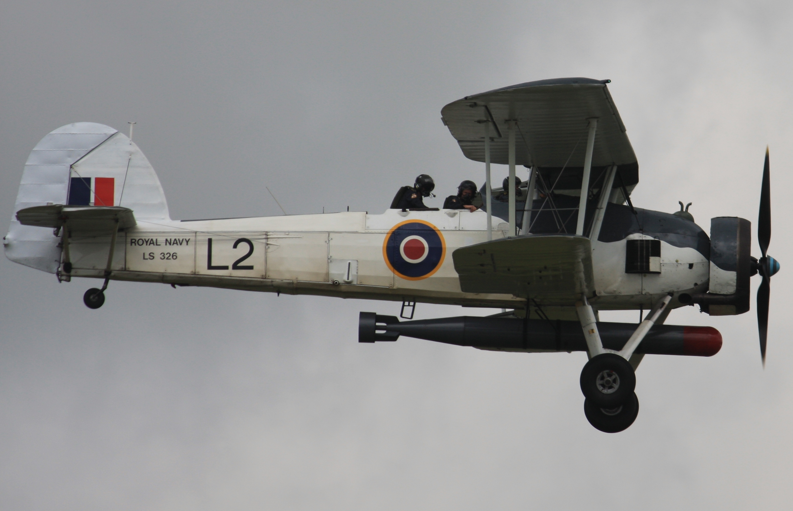 Culdrose (EGDR) UK - England, July 24 2013.